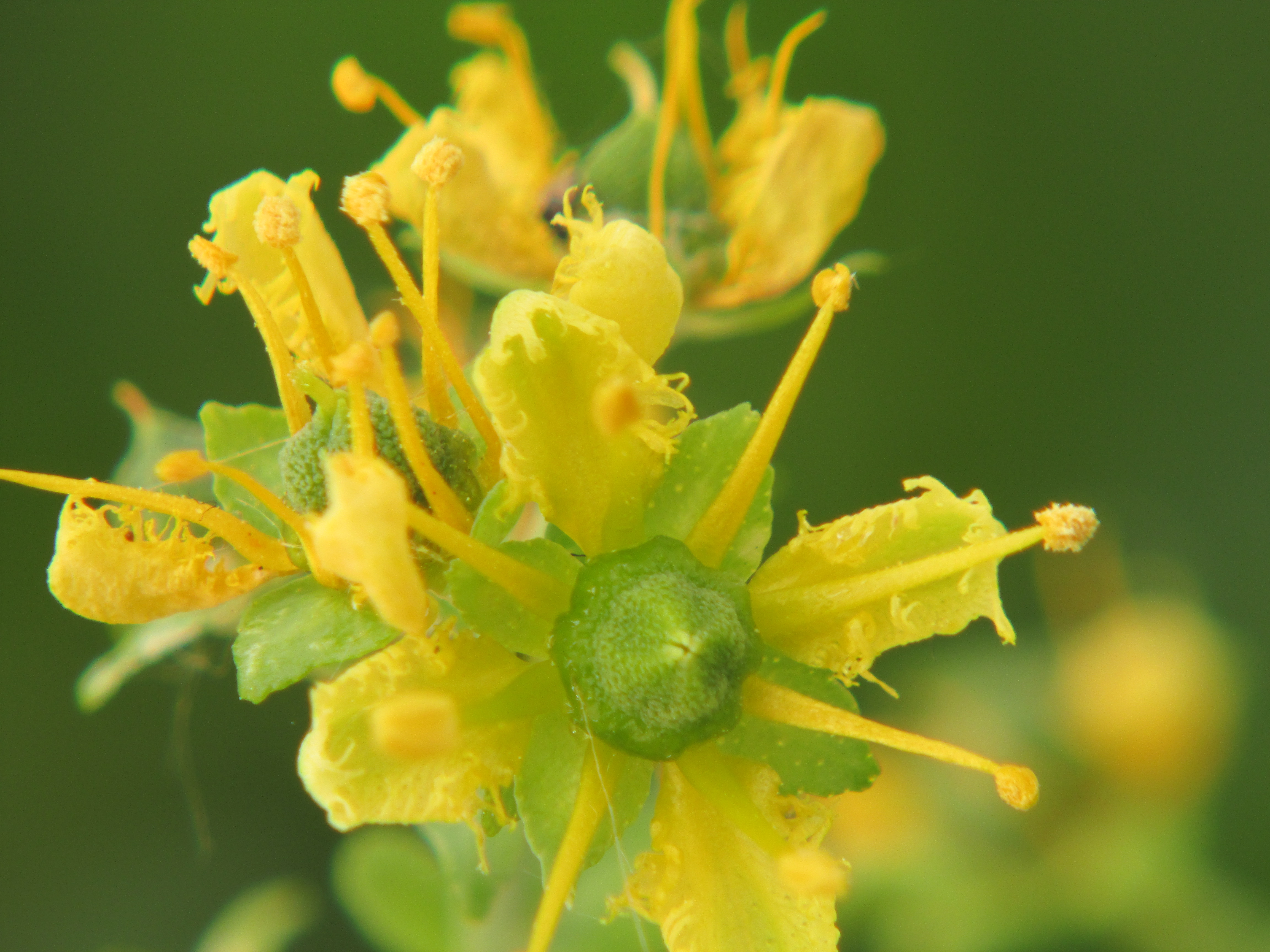 Ruta graveolens